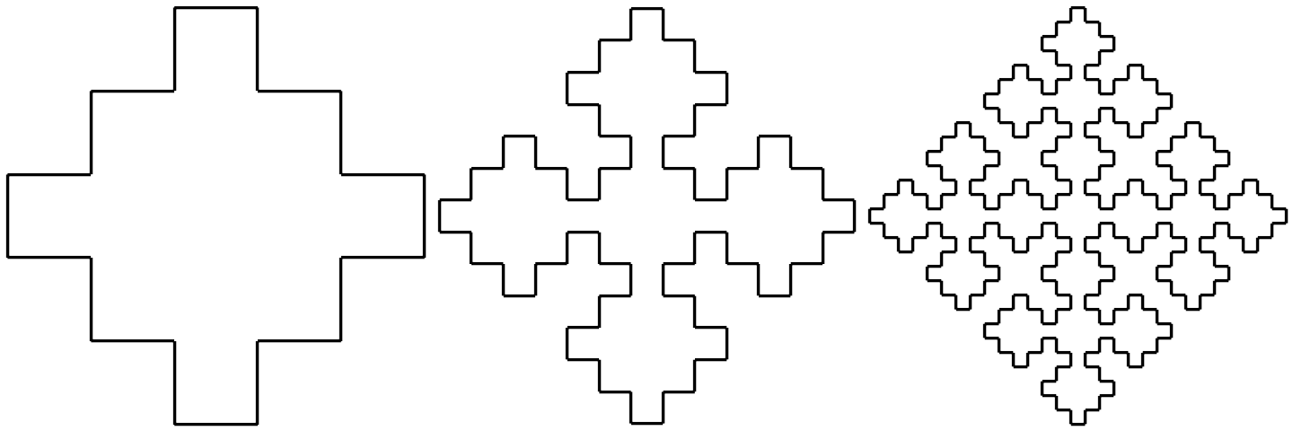 One of the Sierpinski curves, iterations 2-4.